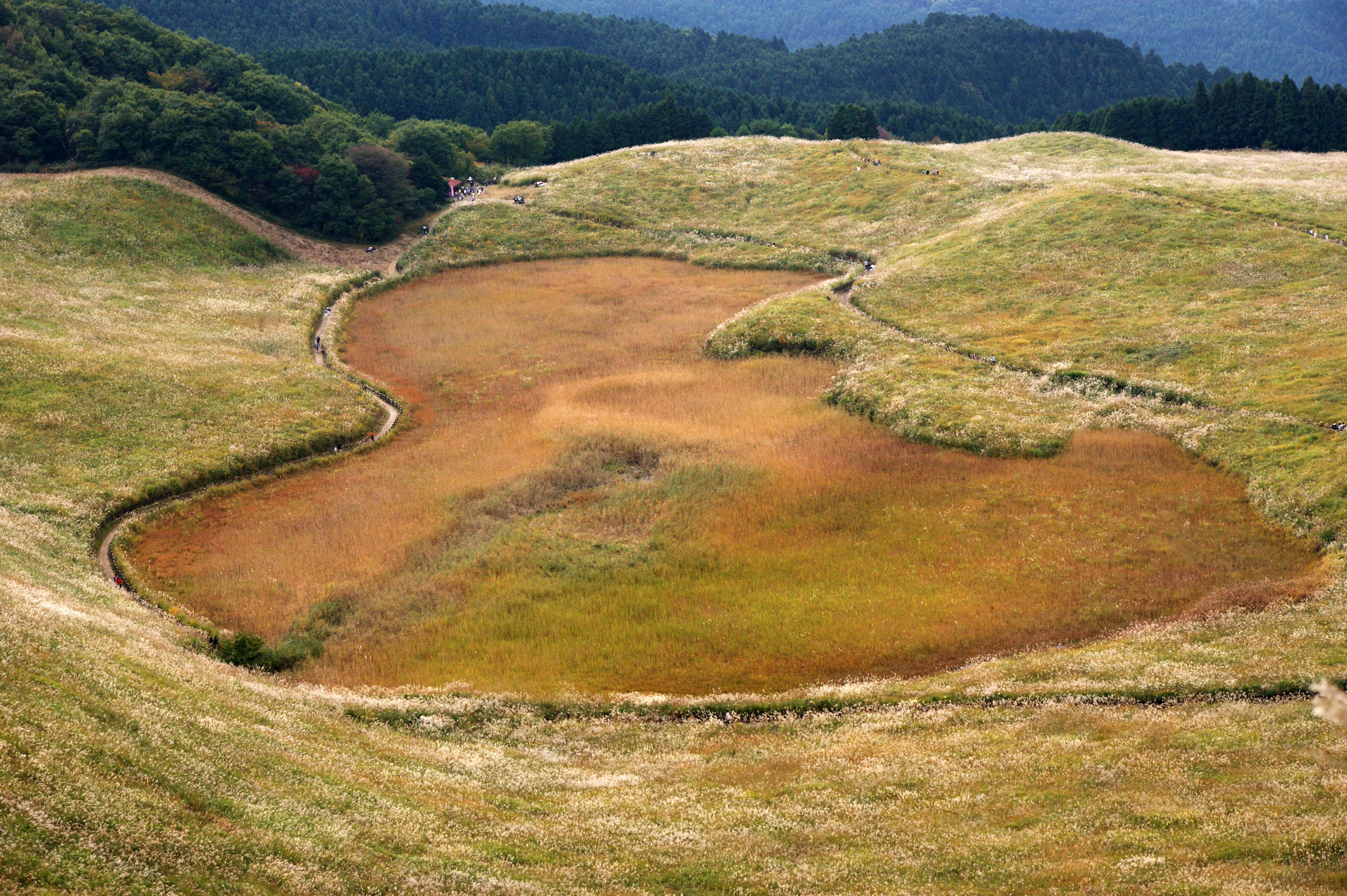 Soni highlands in Soni, Nara prefecture, Japan